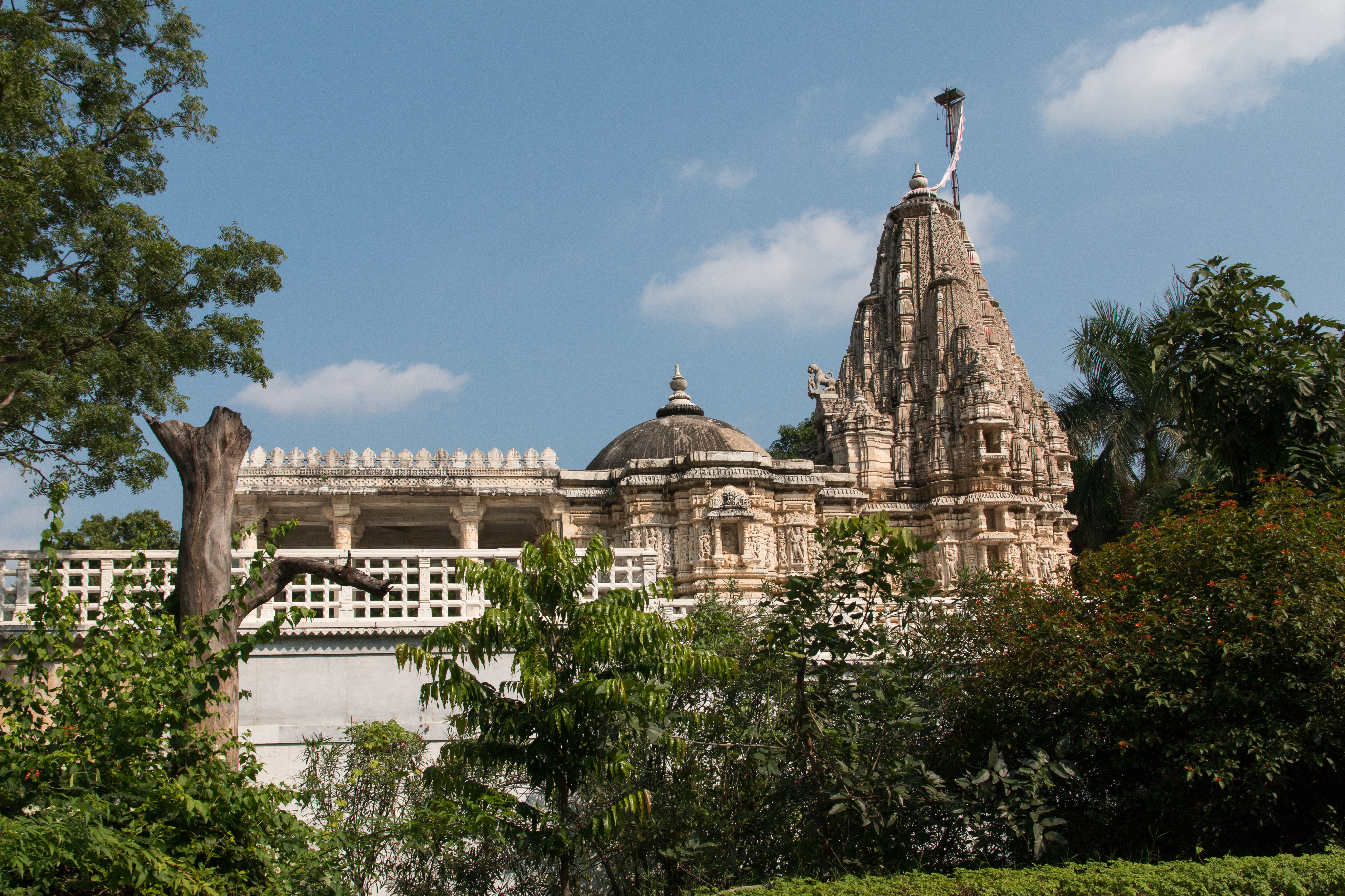 Dedicated to 7th tirthankara, the temple is known as “Paturiyom Mandira” (temple of prostitutes) because of the erotic sculpture adorning the cella.